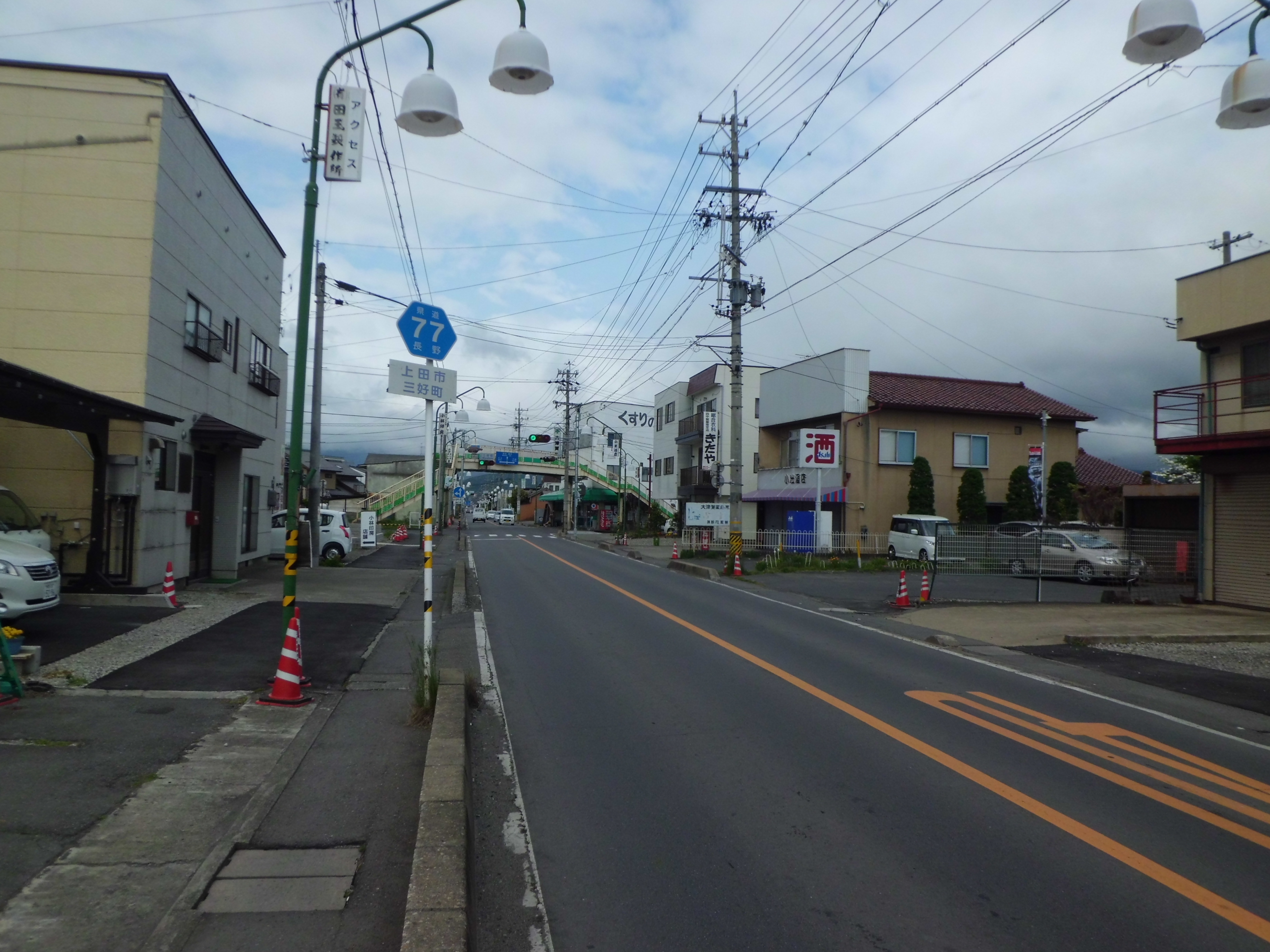 Nagano prefectural road 77 Nagano-Ueda line. Looking west from Miyoshicho 1-chome intersection, Gosho, Ueda city.